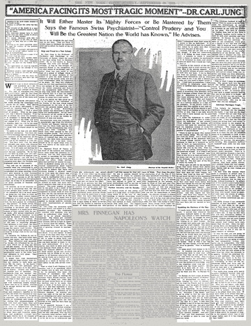 America Facing Its Most Tragic Moment – Dr. Carl Jung, The New York Times, 1912-09-29.